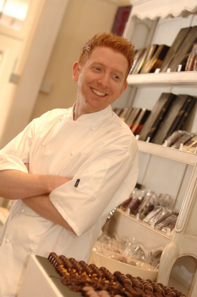 Paul A Young in his Islington Chocolaterie